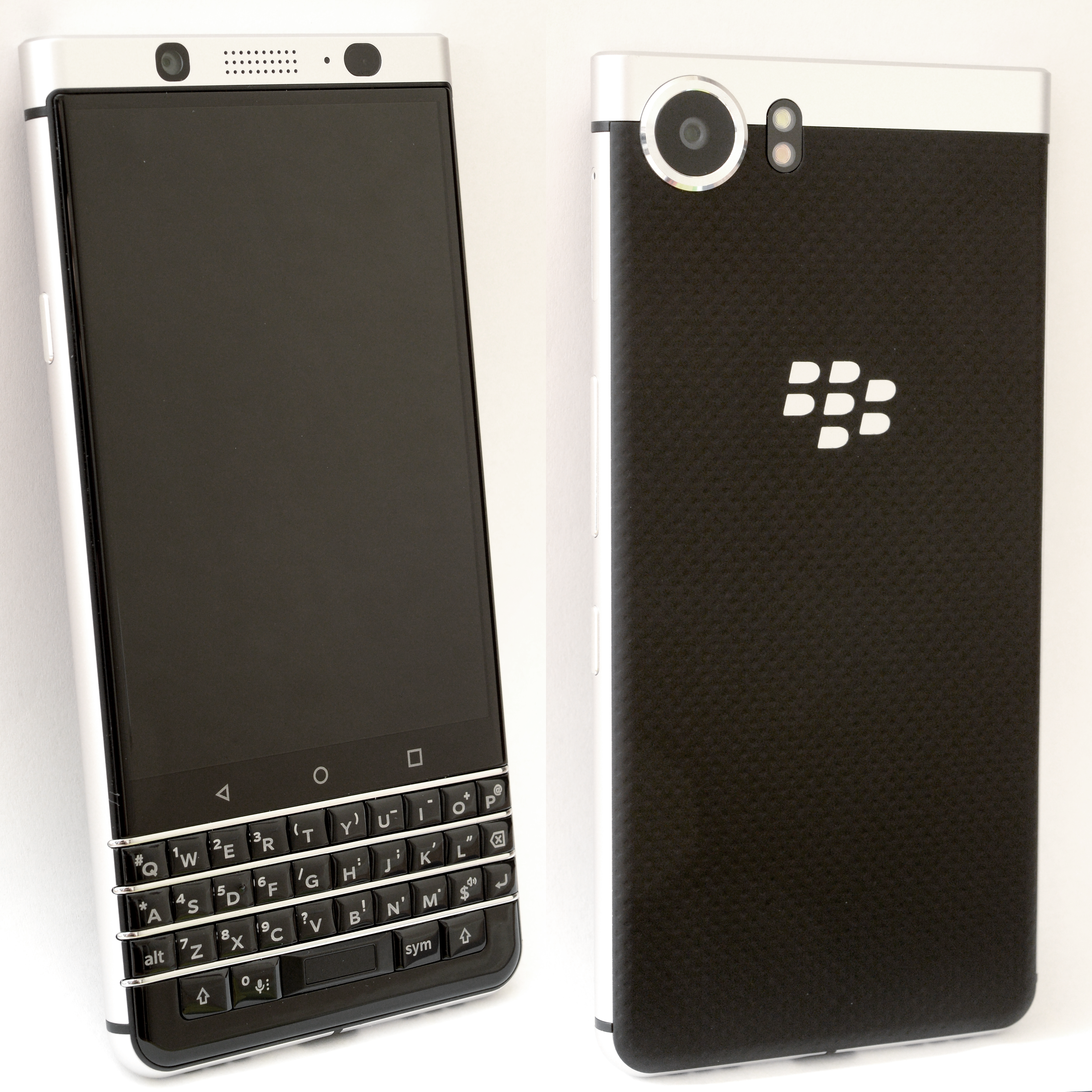 BlackBerry KEYone mobile Android handset, 2017. Attribution must go to Steven H. Keys and